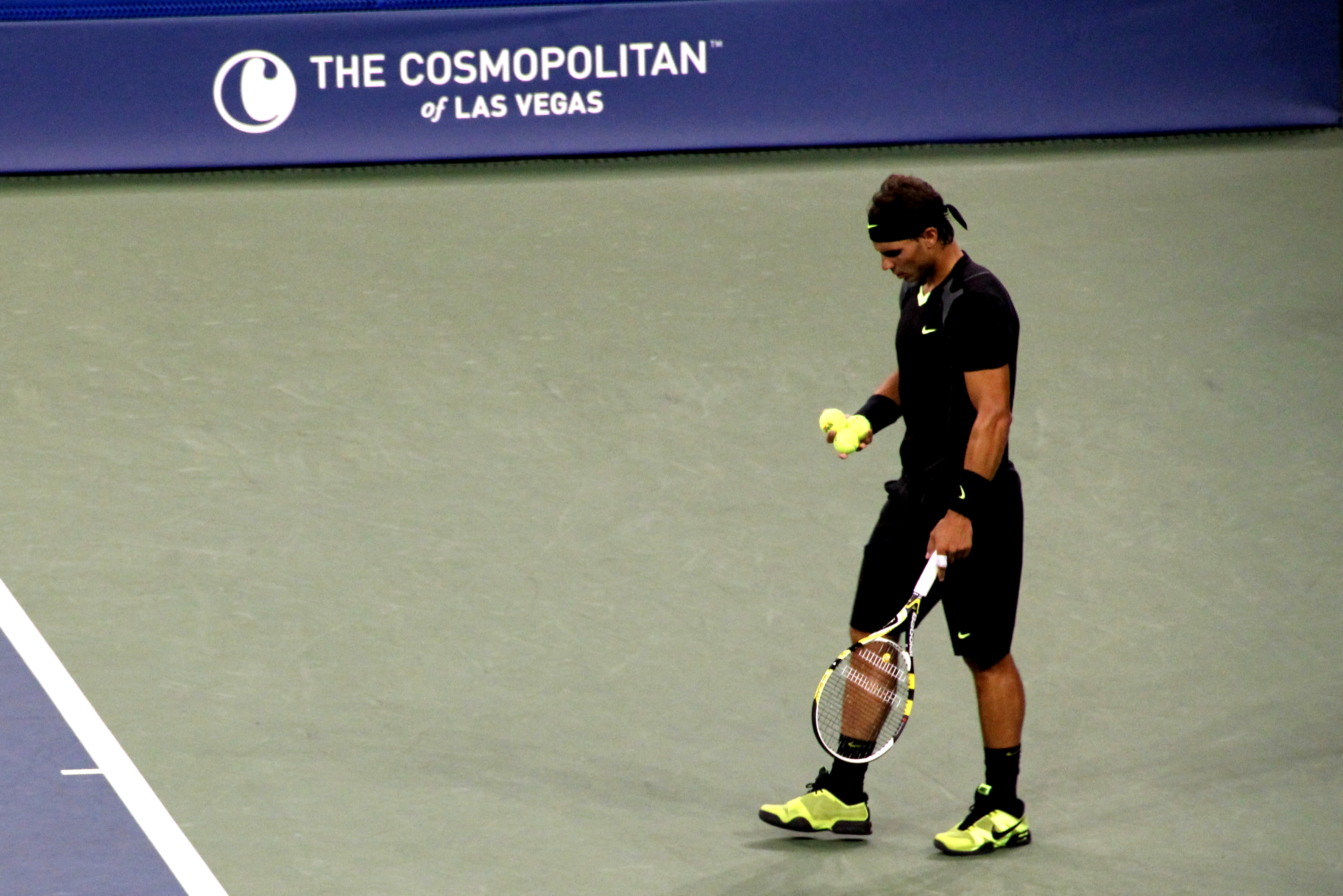 Nadal vs. Lopez match on Tuesday night, 9/7 at the US Open. The Cosmopolitan is in New York for the 2010 US Open, inviting attendees and guests to experience signature views from our Overlook and in our custom designed suite with prime-stadium seating. For more information on The Cosmopolitan visit